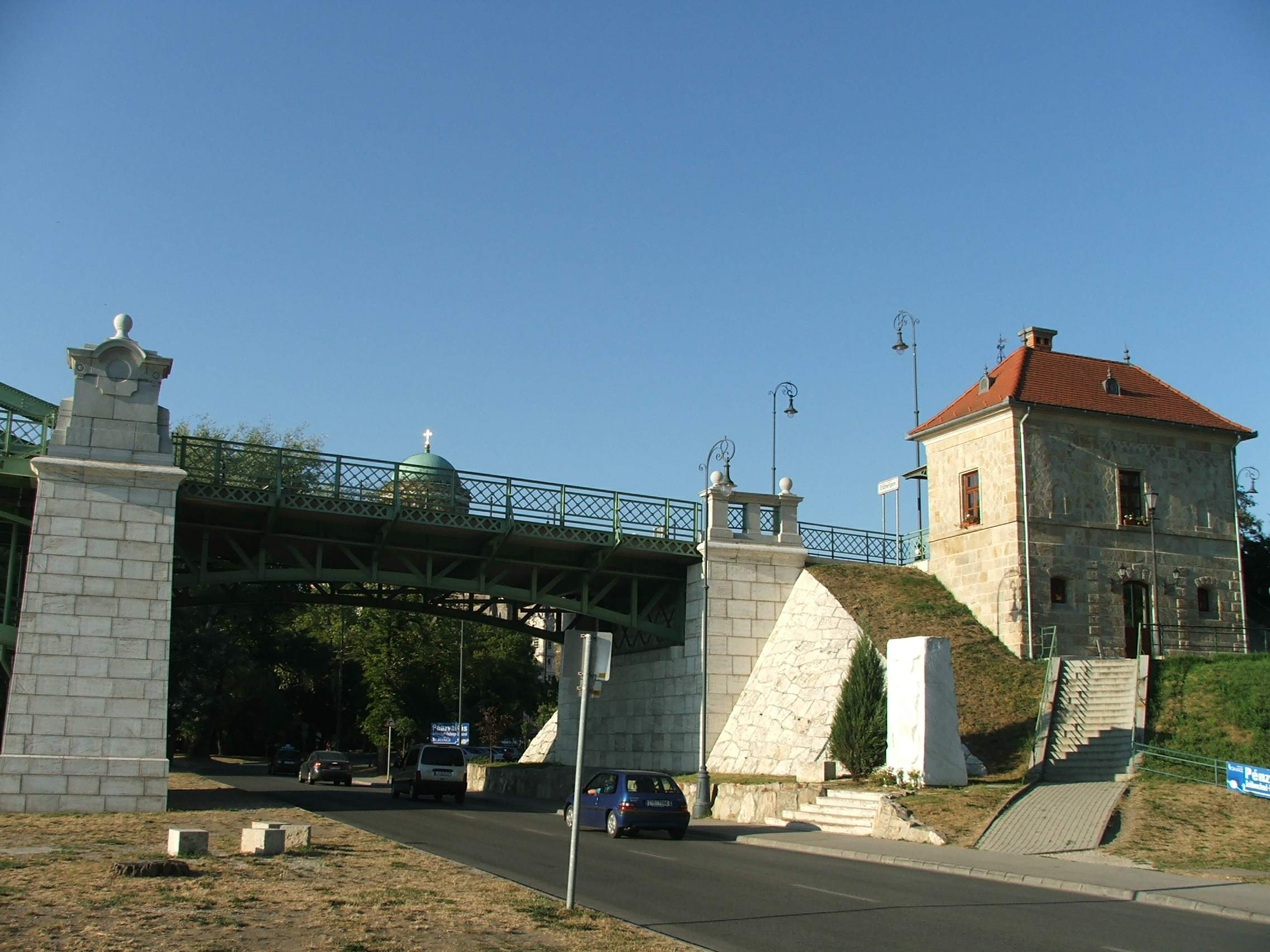 At the foot of the Mária Valéria bridge